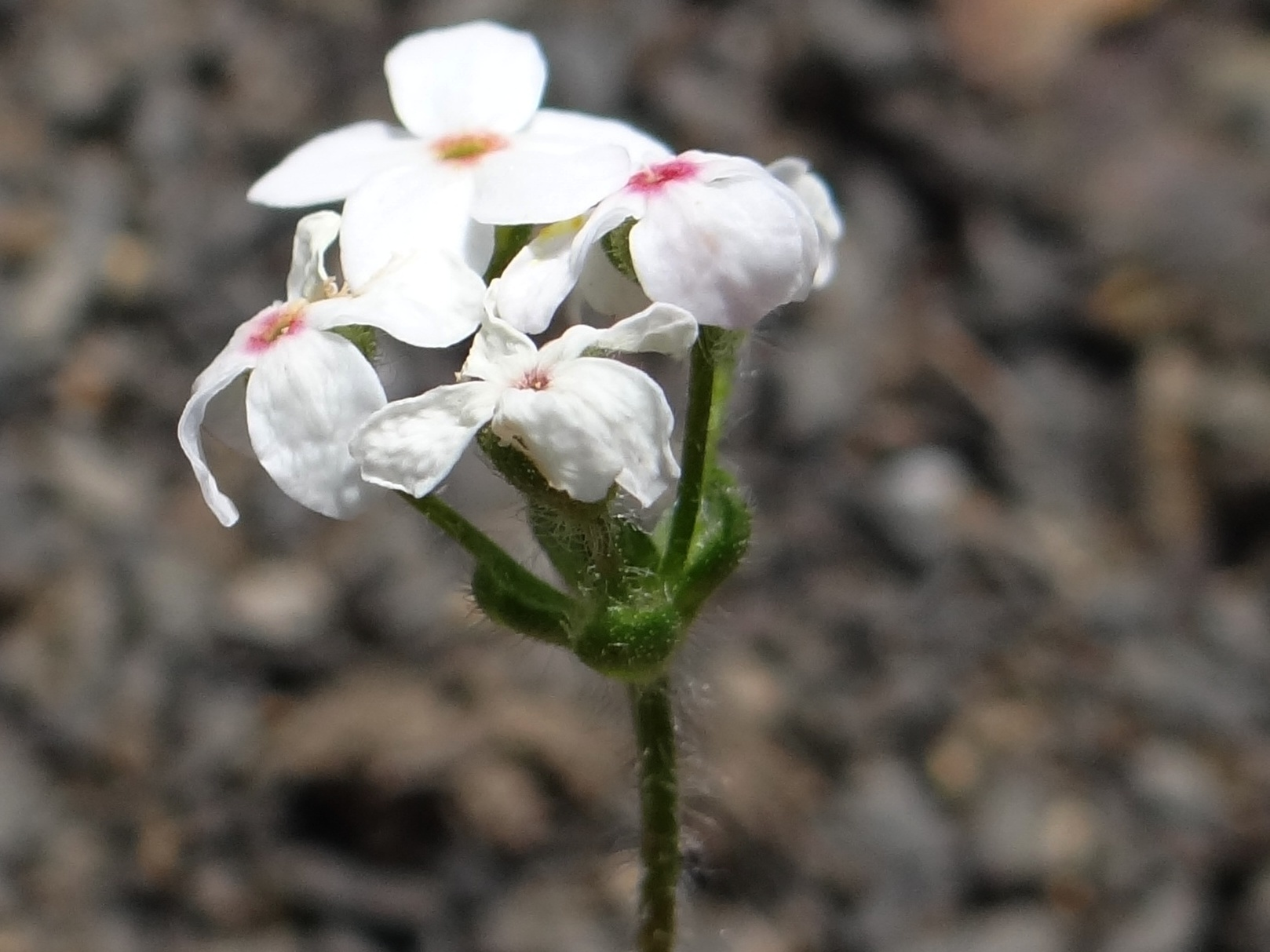 Androsace chamaejasme (habitat:West Tatra Mountains)